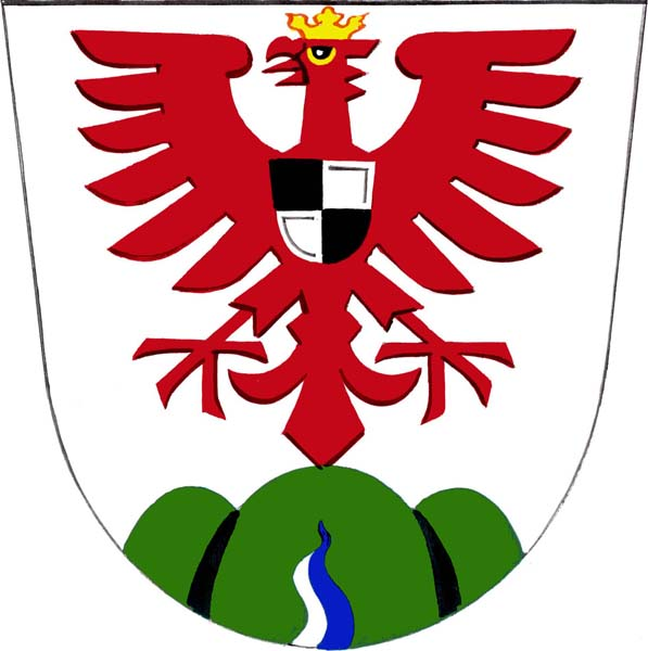 Coat of arms of municipality Arnolec, Jihlava District, Czechia.